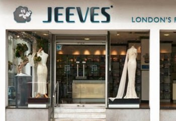 Jeeves of Belgravia, the flagship store on Pont Street, London